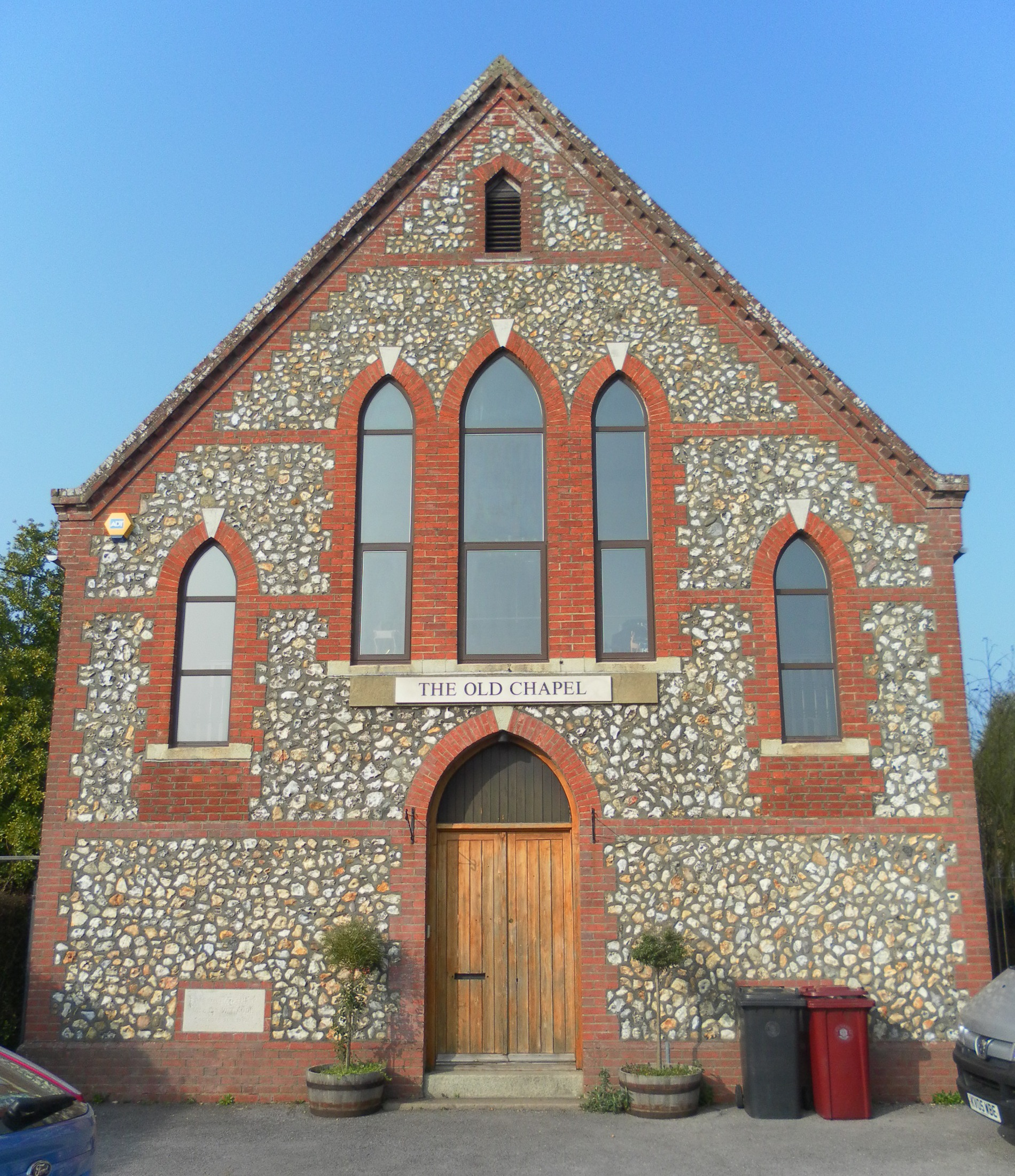 Former Bible Christian Chapel, Main Road, Nutbourne, District of Chichester, West Sussex, England. Now commercial premises with the name The Old Chapel.